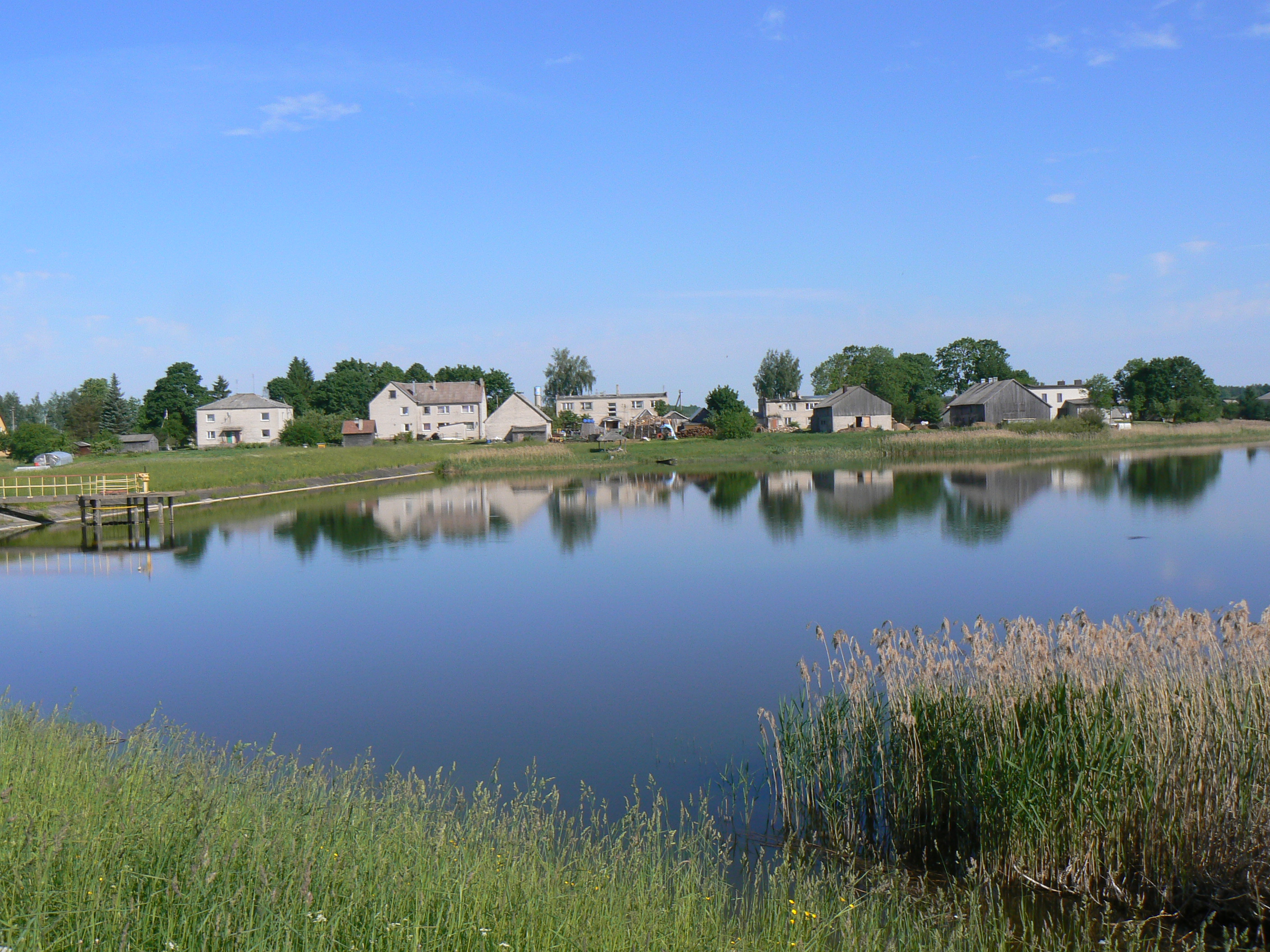 Pond in Balsiai on Ašutis.